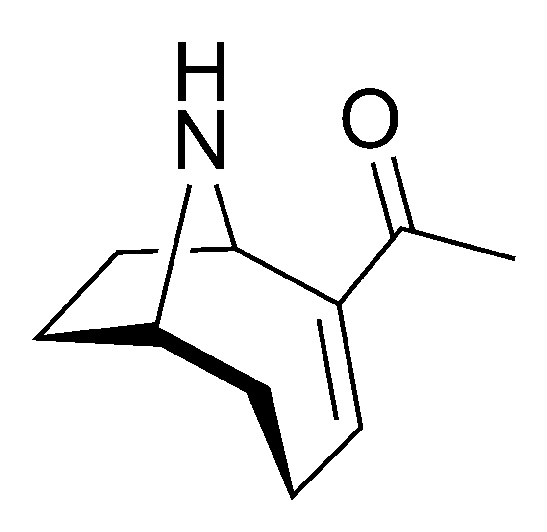 Chemical structure of Anatoxin-a